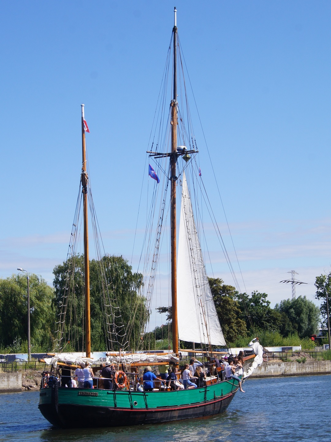 Polish ship ARK - Kolobrzeg, built in Ustka 1956